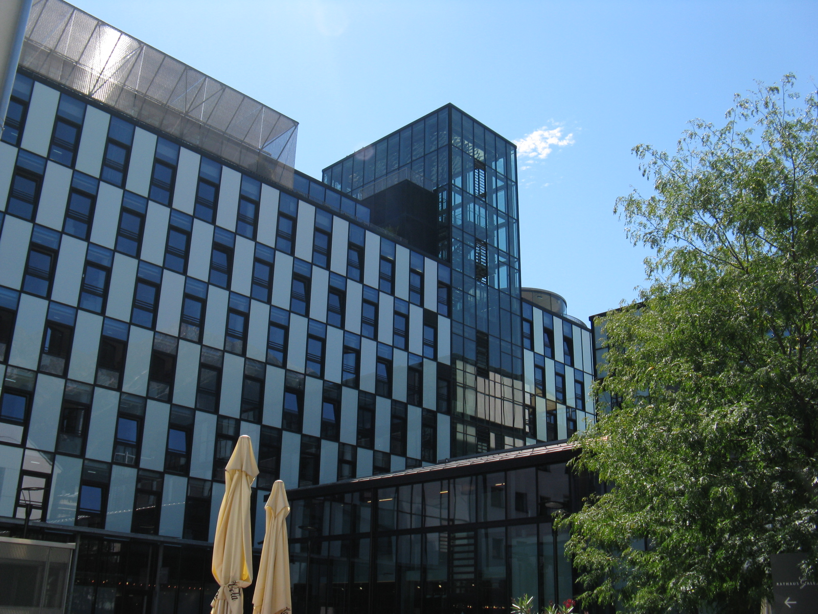 new town hall of Innsbruck, view of inner courtyard